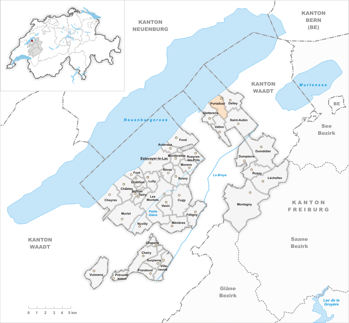 Municipality Portalban Artist: Tschubby